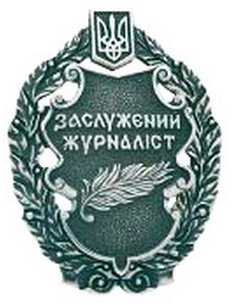 Badge of Honoured Journalist of Ukraine